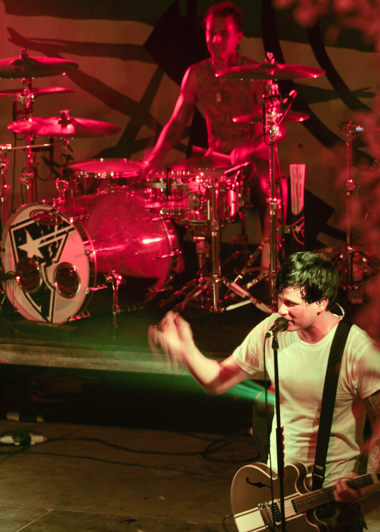 The rock band Blink-182 guitarist and singer Tom Delonge and drummer Travis Barker perform for Sailors and Marines at Naval Support Activity Bahrainís Main Street Park. Morale Welfare and Recreation, Naval Personnel Command Millington, Tenn. and MWR, NSA Bahrain brought Blink-182 to Bahrain to perform for Sailors, Marines and their families.